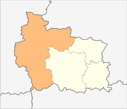 Map of Sevlievo municipality, Gabrovo Province